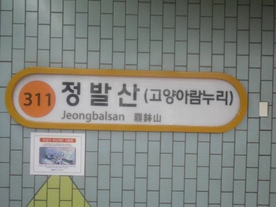 Jeongbalsan Station Sign